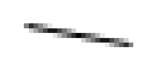 Antialiased line drawn with Xiaolin Wu's algorithm